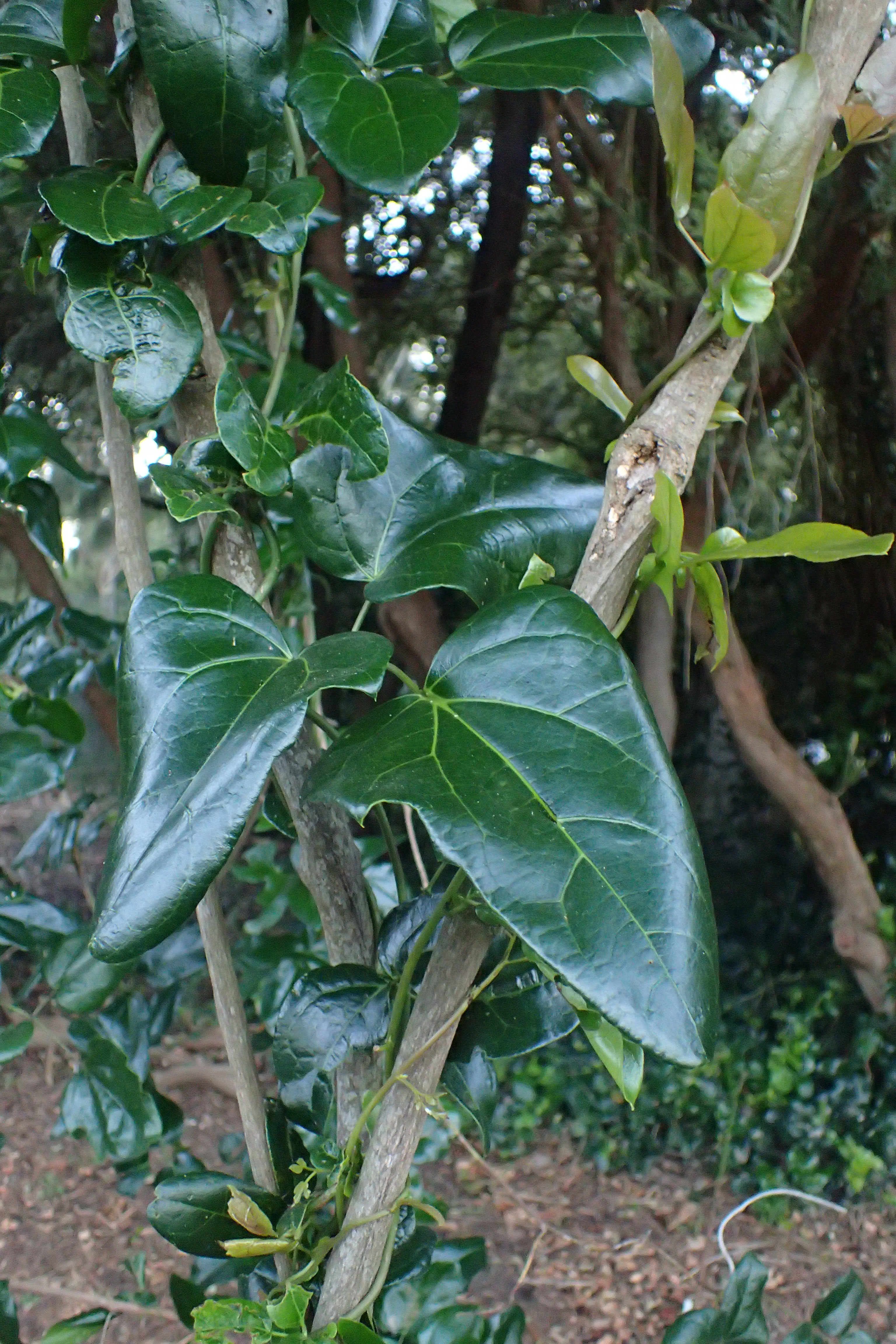 Lardizabala biternata in the San Francisco Botanical Garden